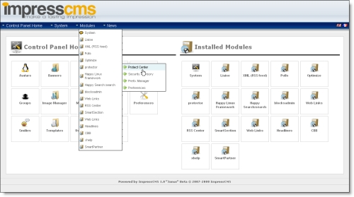 Screenshot ImpressCMS